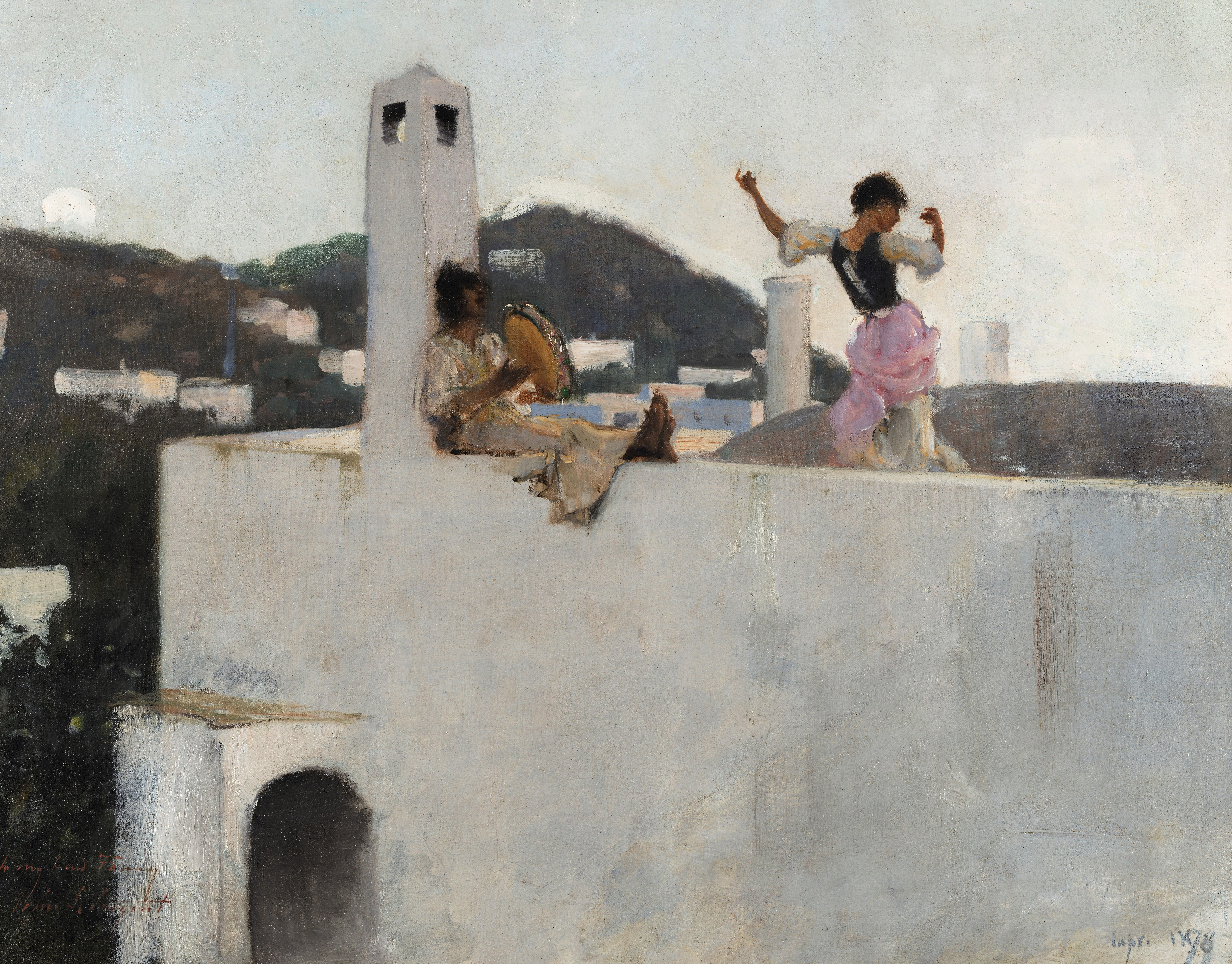 The painting is of Rosina Ferrara doing a tarantella dance on the rooftop of (probably) Sargent's hotel.